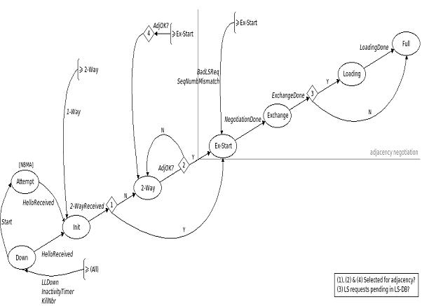 Neighbor state diagram for OSPF